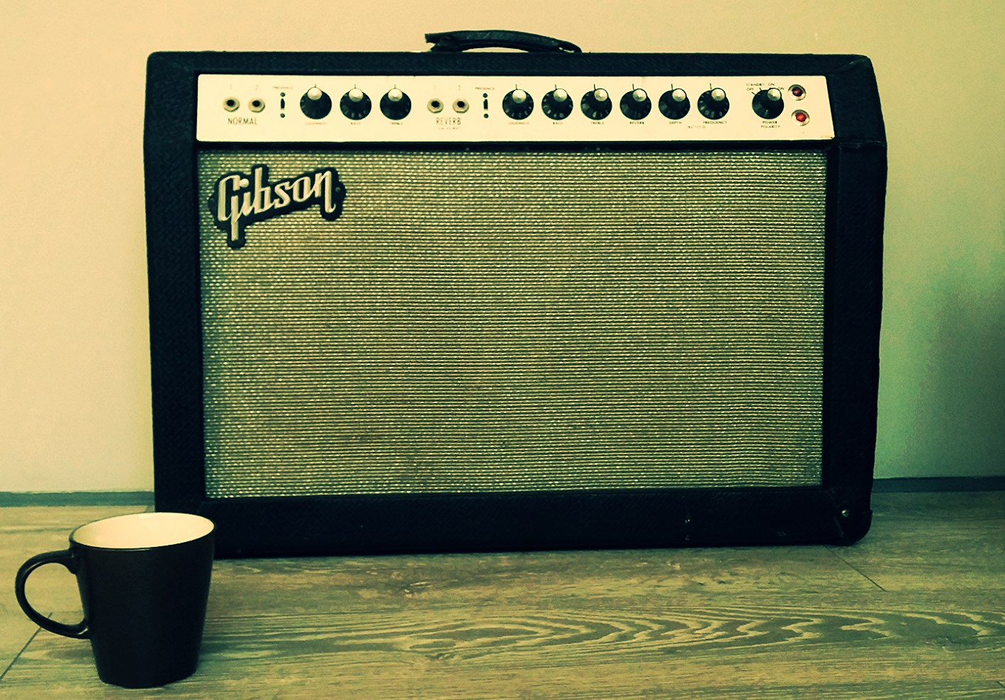 Coffee and music Sometimes we need both to boost our energy... This Gibson amplifier, and many more, will soon be available to music lovers worldwide… Visit to find out how.